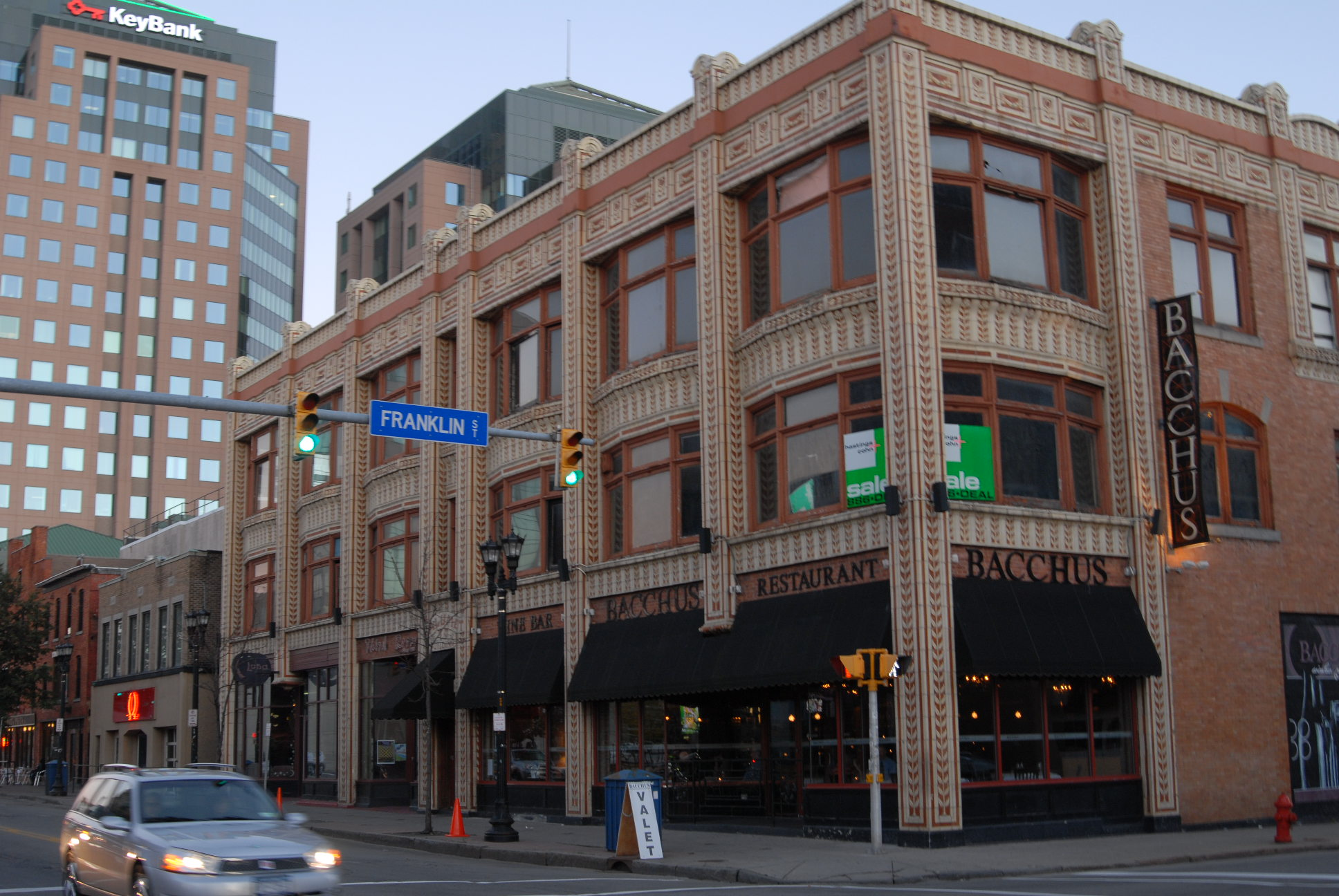 The Calumet Building, by Esenwein & Johnson, 1906, flamboyant example of glazed terra cotta.